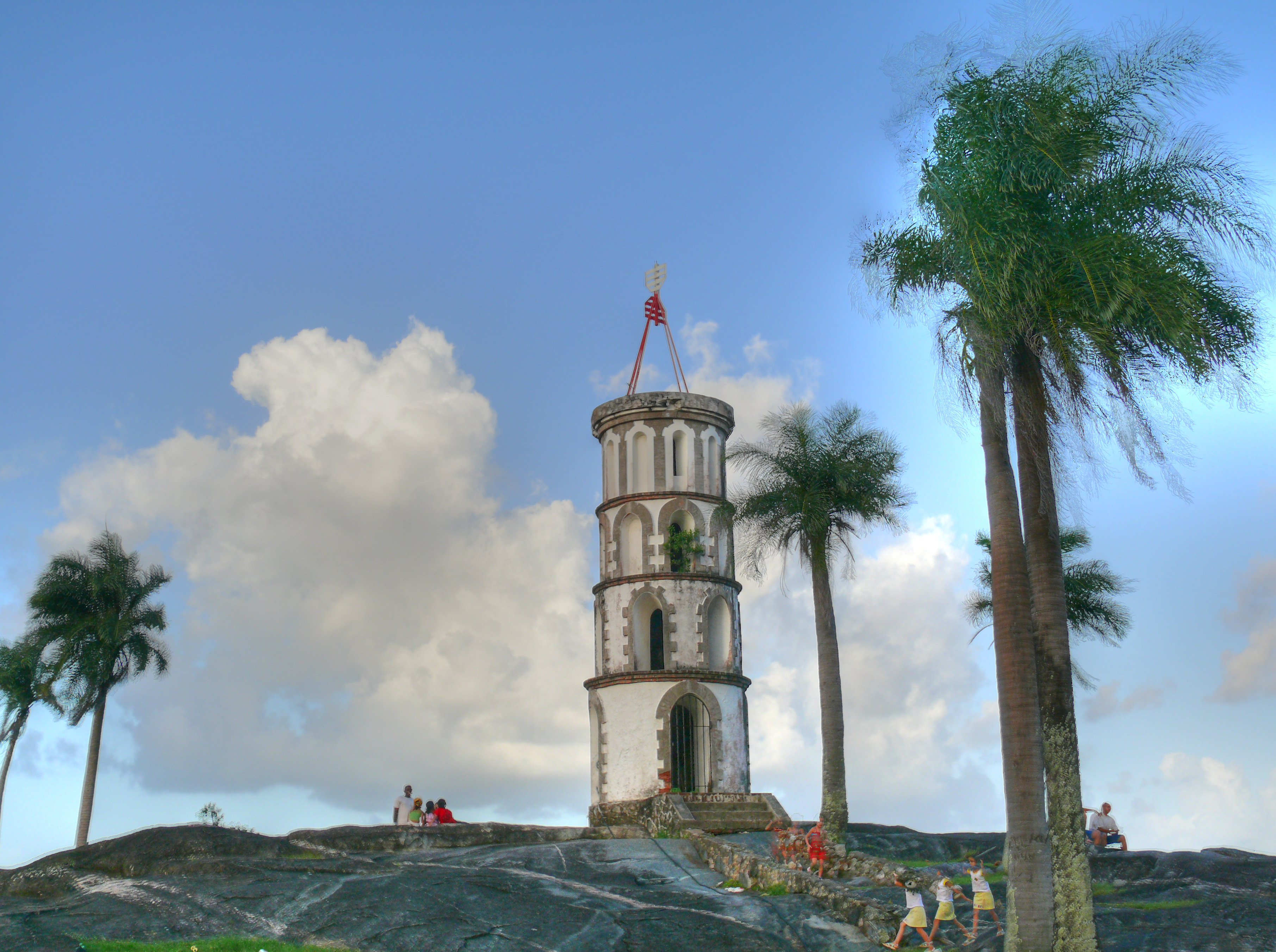 HDR image of Kourou's Tour Dreyfus on a Sunday evening.